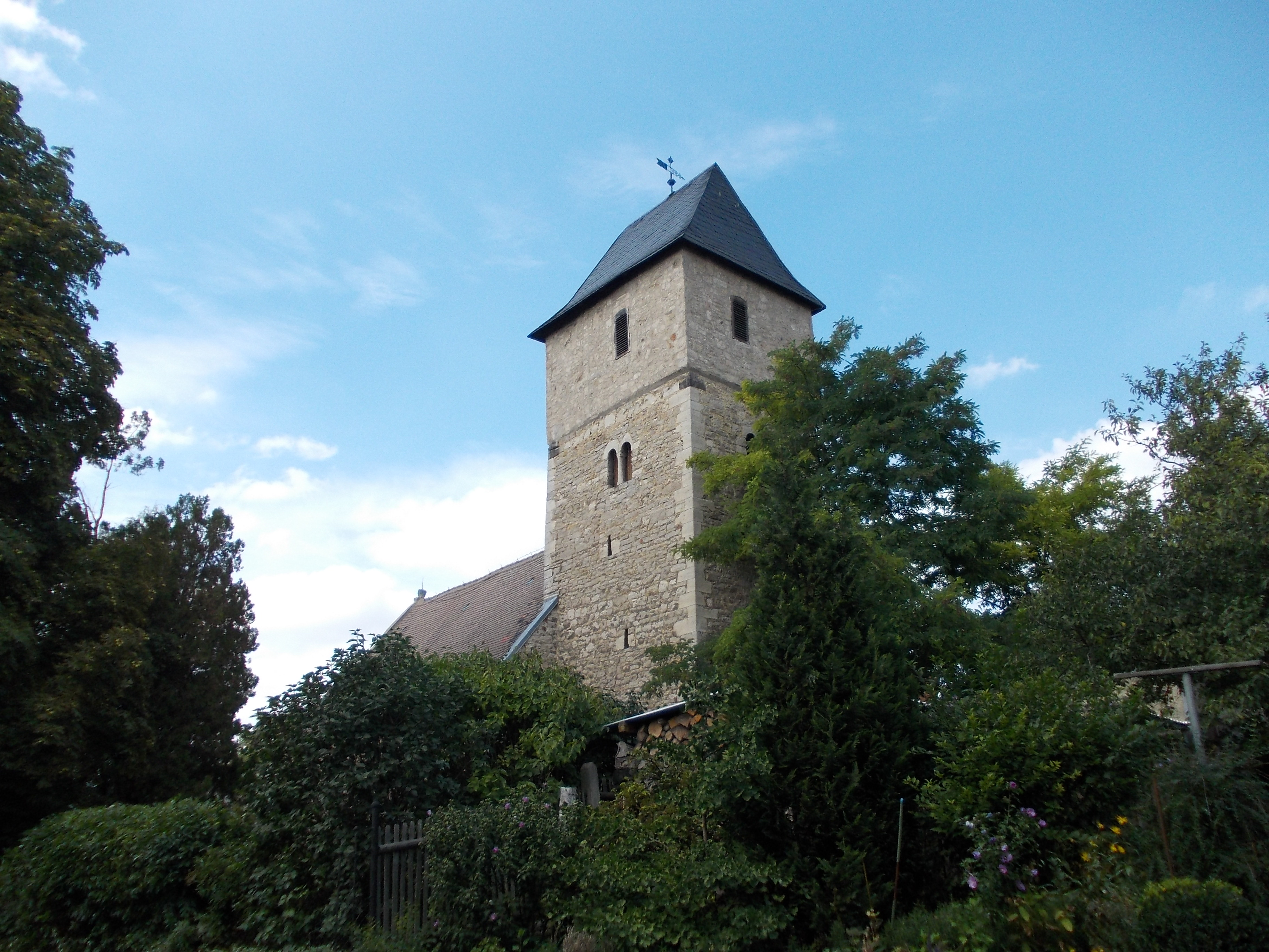 Abtlöbnitz church (Molauer Land, district of Burgenlankreis, Saxony-Anhalt) from the south-east